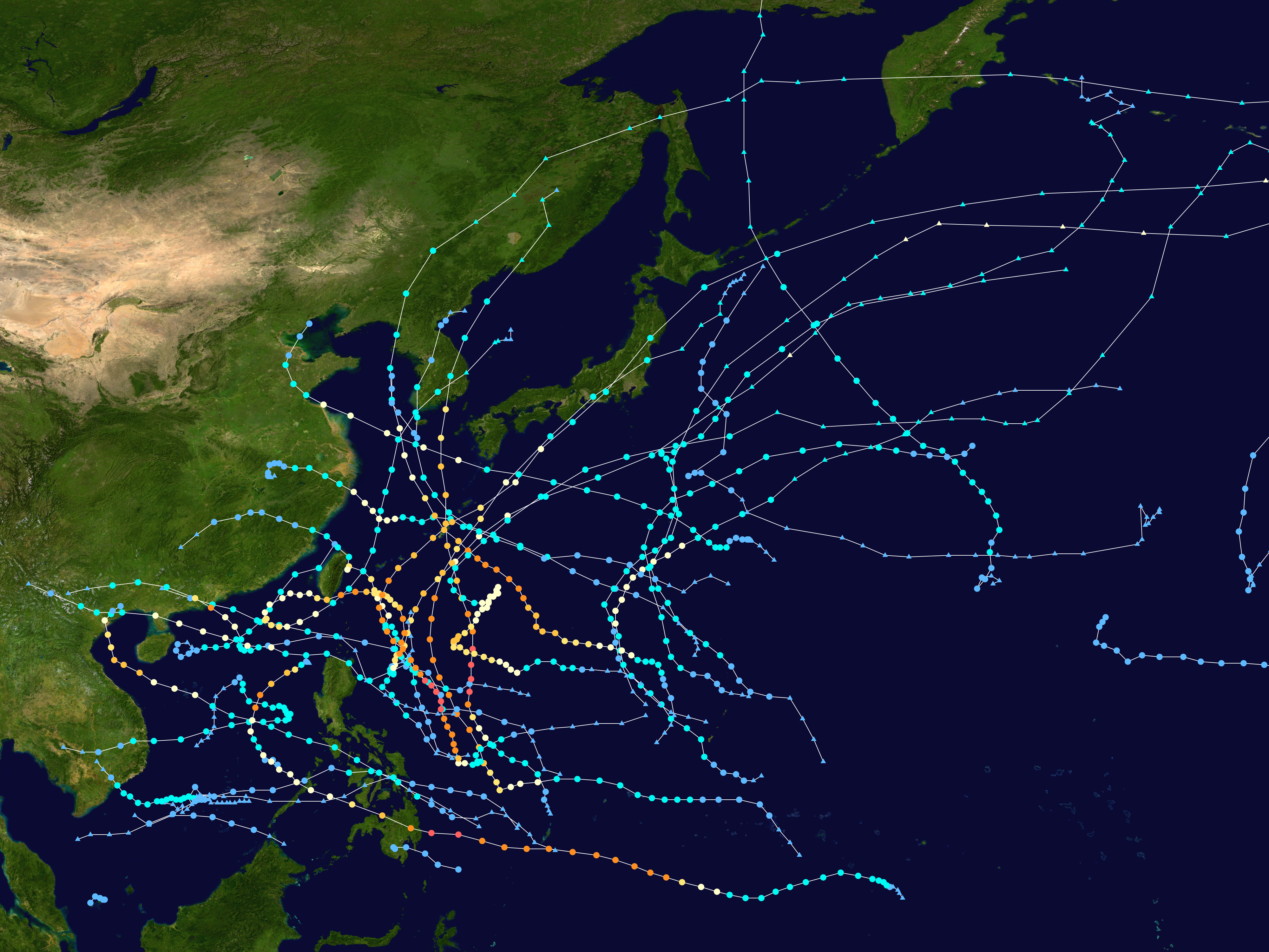 This map shows the tracks of all tropical cyclones in the 2012 Pacific typhoon season. The points show the location of each storm at 6-hour intervals. The colour represents the storm's maximum sustained wind speeds as classified in the Saffir-Simpson Hurricane Scale (see below), and the shape of the data points represent the type of the storm. Saffir–Simpson scale Tropical depression≤38 mph≤62 km/h Category 3111–129 mph178–208 km/h Tropical storm39–73 mph63–118 km/h Category 4130–156 mph209–251 km/h Category 174–95 mph119–153 km/h Category 5≥157 mph≥252 km/h Category 296–110 mph154–177 km/h Unknown Storm type Tropical cyclone Subtropical cyclone Extratropical cyclone / Remnant low / Tropical disturbance / Monsoon depression